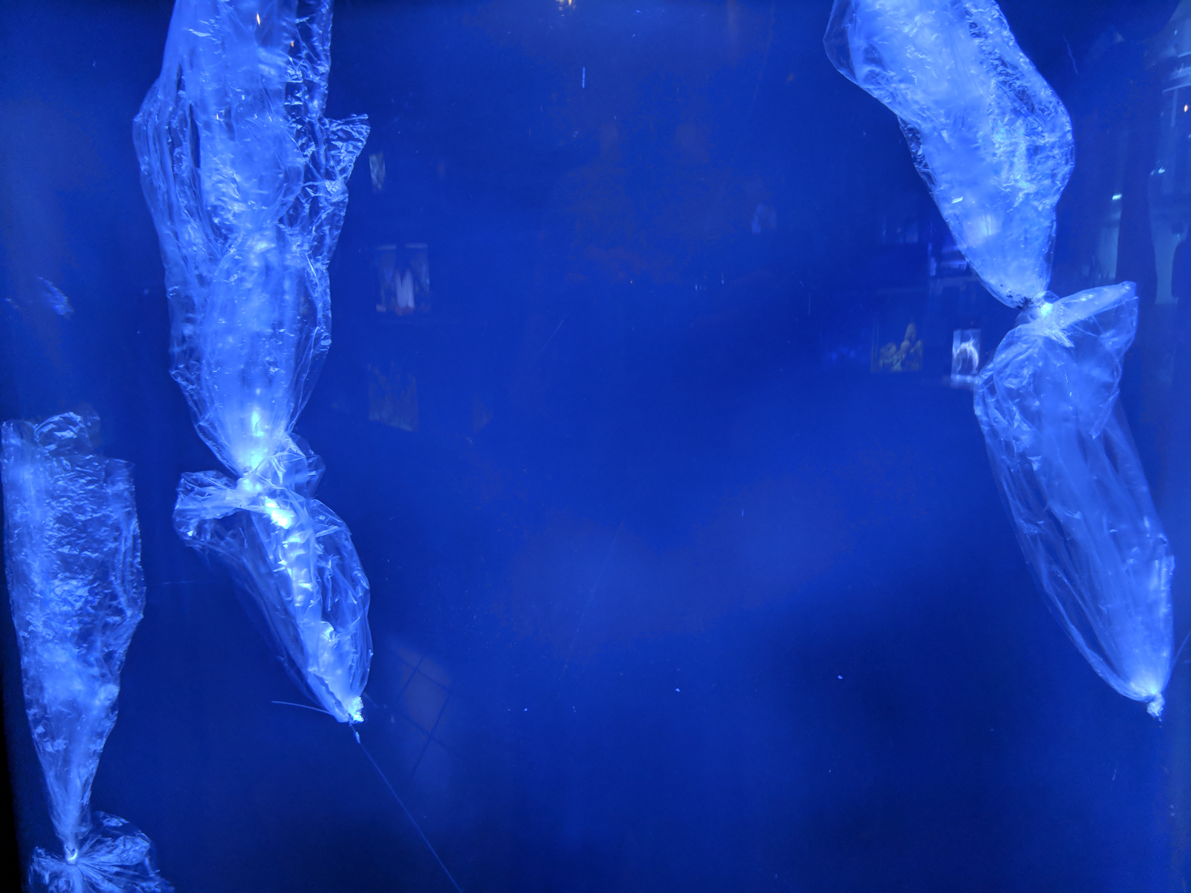 An exhibit at the Mote Marine Aquarium that displayed plastic bags in the ocean that look similar to jelly fish.